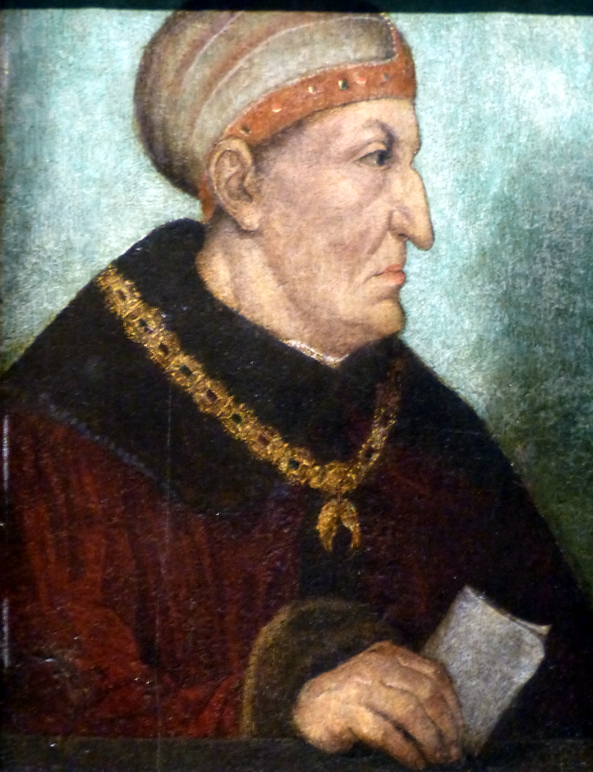 Wiener Neustadt ( Lower Austria ). Lower Austria exhibition 2019 - Portrait of emperor Frederick III in old age ( 16th century )